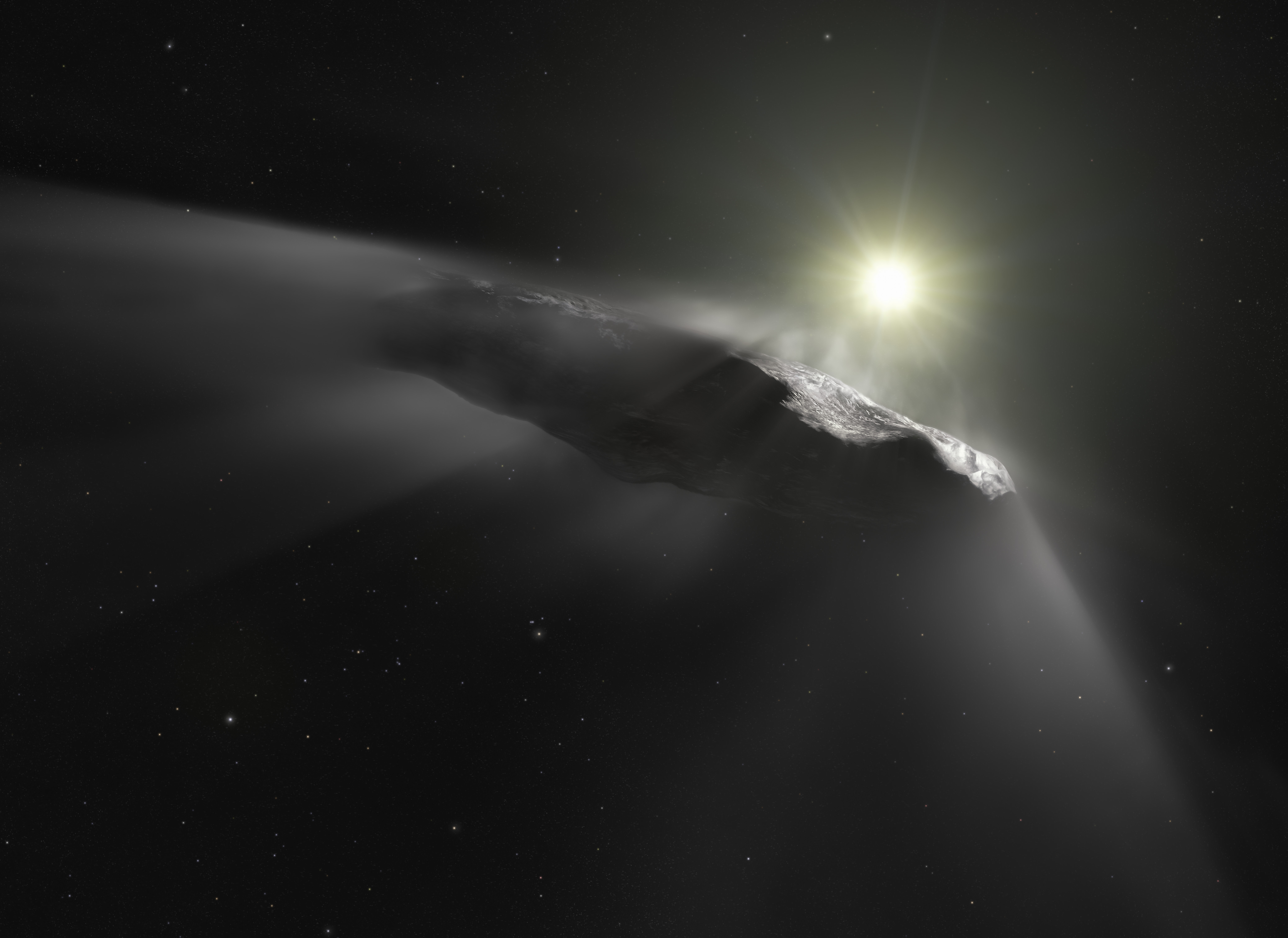 This artist’s impression shows the first interstellar object discovered in the Solar System, `Oumuamua. Observations made with ESO’s Very Large Telescope, the NASA/ESA Hubble Space Telescope, and others show that the object is moving faster than predicted while leaving the Solar System. Researchers assume that venting material from its surface due to solar heating is responsible for this behaviour. This outgassing can be seen in this artist’s impression as a subtle cloud being ejected from the side of the object facing the Sun. As outgassing is a behaviour typical for comets, the team thinks that `Oumuamua’s previous classification as an interstellar asteroid has to be corrected.